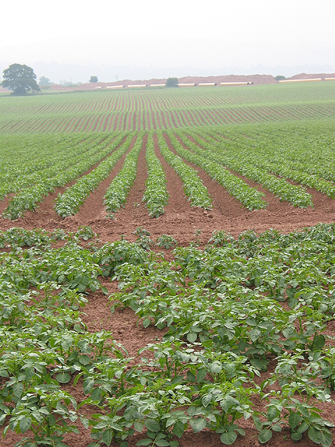 Ranks of potato plants. The yellow pipes in the hazy distance are part of the Felindre to Tirley gas pipeline installation which is difficult to avoid at the moment in this area.